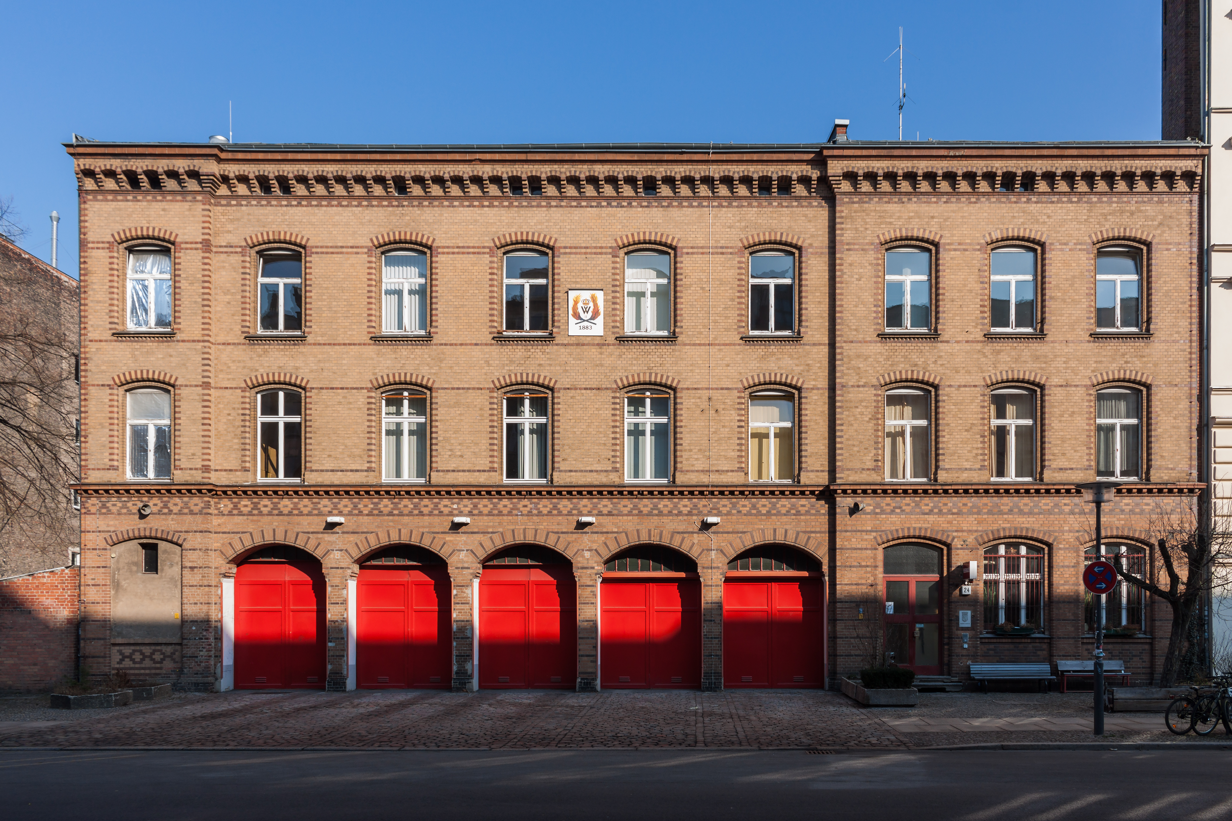 The fire station in the Oderberger Straße in Berlin-Prenzlauer Berg.